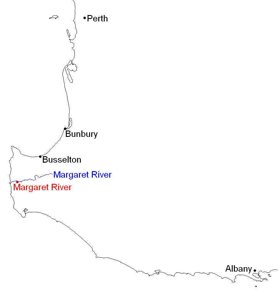 This image is a map of an area of land in the south west of Western Australia, showing the location of Margaret River, Western Australia, both town and river. It was created by the uploader.